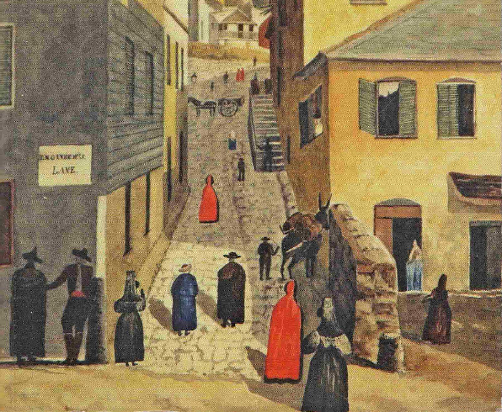 "Castle Street" Engineer's Lane